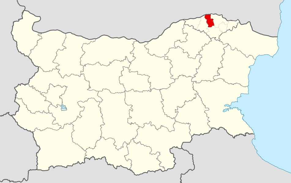 Location map of Sitovo Municipality within Bulgaria and Silistra Province. Equirectangular projection, N/S stretching 130 %. Geographic limits of the map: N: 44.4° N S: 41.1° N W: 22.1° E E: 28.9° E